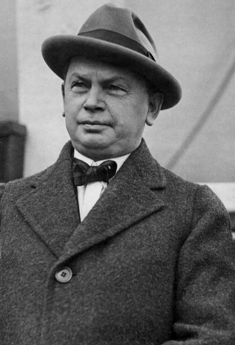 Photo of cartoonist Clare Briggs as he returned with his wife from a European vacation in 1922.